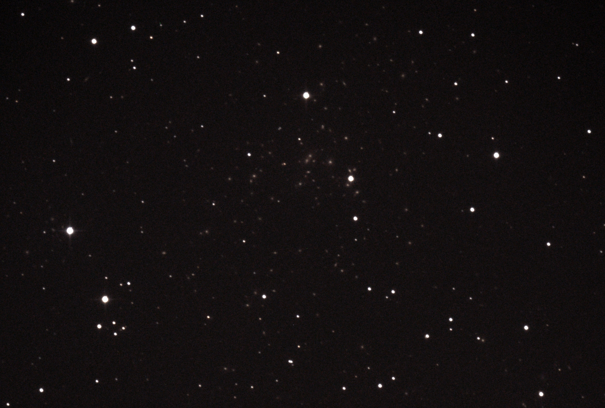 Abell 2065, photographed with amateur equipment Skywatcher 10" Quattro Newtonian, Skywatcher AZ-EQ6 GT mount, Skywatcher f4 aplanatic coma corrector, Skywatcher 9x50 finderscope, Lacerta MGEN-II Superguider Canon EOS100D camera, 1x10 min exposures, ISO 800, 13x10 min dark frames, processing made with DeepSkyStacker 3.3.4 and StarTools 1.3.5.289 Baiculesti commune, Arges county, Romania Avg. outside temperature: 17ºC